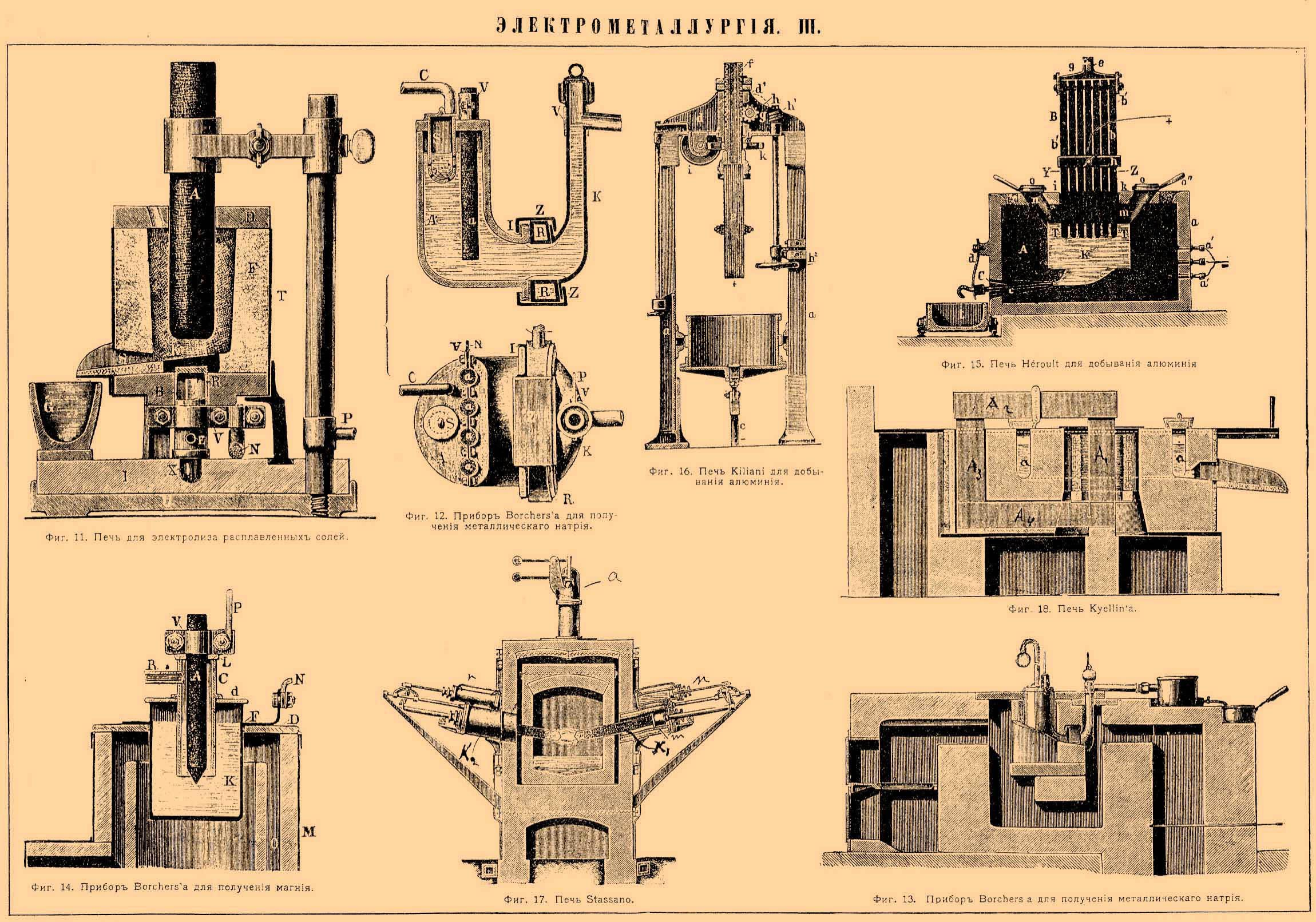 Illustration from Brockhaus and Efron Encyclopedic Dictionary (1890—1907)